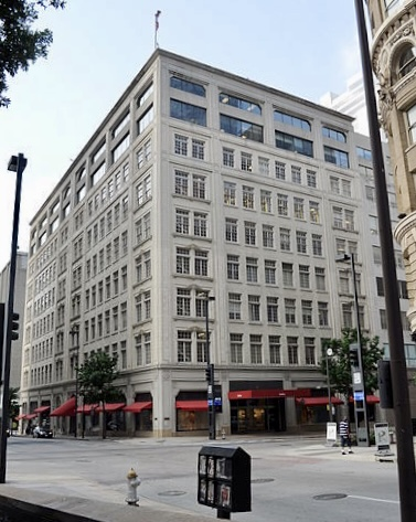 Neiman Marcus flagship store, Dallas, Texas, United States.